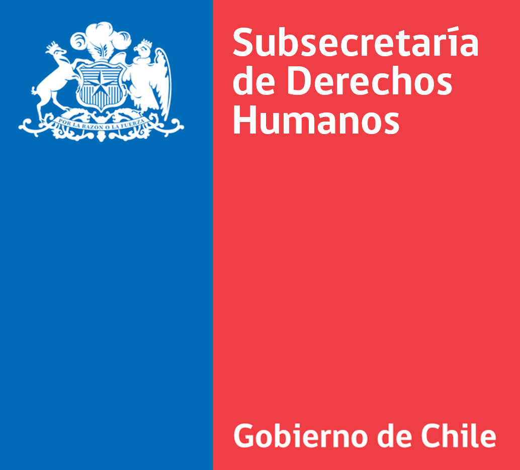 Institutional logo of the Human Rights Department.